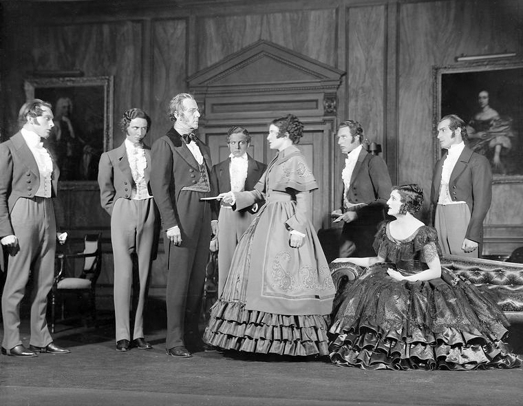 Promotional photograph from the Broadway production of The Barretts of Wimpole Street Caption reads as follows: The play's last agonizing moment as Henrietta hands Barrett Elizabeth's note. Mr. Charles Waldron, Miss [Margaret] Barker, and Miss Joyce Carey in the foreground, as Barrett, Henrietta and Arabella. In the background are four of the eight sons